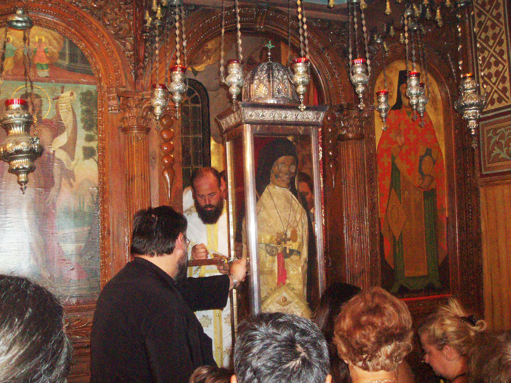 Relic of Saint Joseph - Samakos in Gaitani village (Zakinthos, Greece)